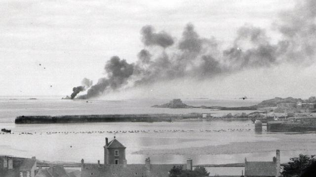 Cezembre island photographied before its surrender on September 2nd 1944 by US Air Force plane. Heavily bombed by air, sea and artillery, the island emits thick black smoke. In the foreground, Saint Malo harbour and the destroyed city.